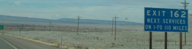 Interstate 70 near Green River